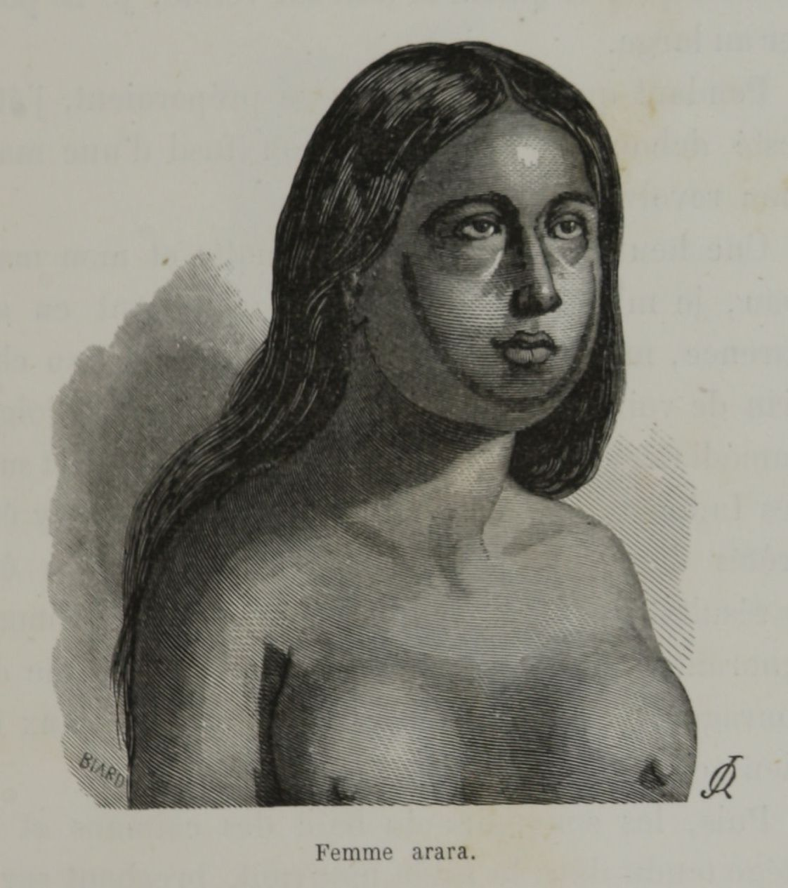 "Arara female." Illustration of a Brazilian indian woman of the Arara tribe. In Deux années au Brésil.